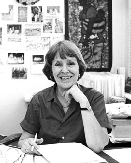 Elizabeth Warnock Fernea in her office at the Center for Middle Eastern Studies, University of Texas at Austin, late 1980s